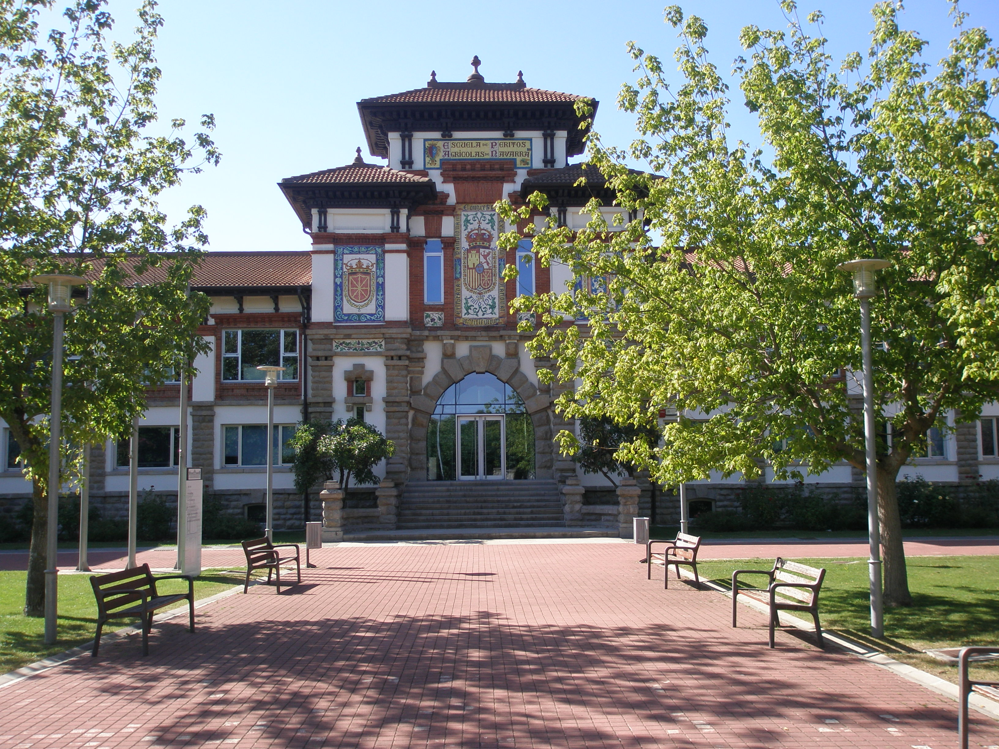 It was built in 1912 by José Yárnoz in Villava, in order tobe the "Congreso nacional de Viticultura" Palace.